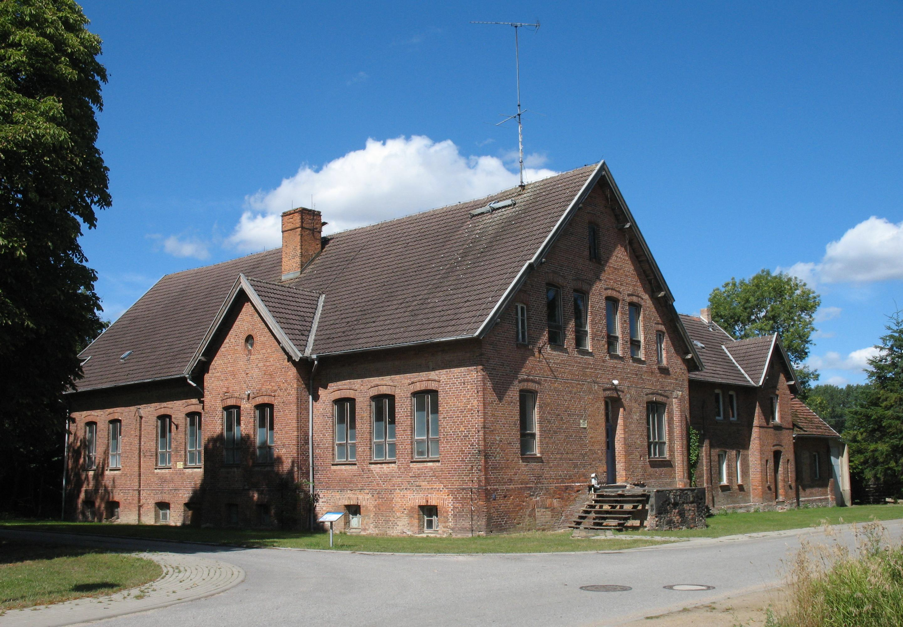 Manor house in Mestlin in Mecklenburg-Western Pomerania, Germany